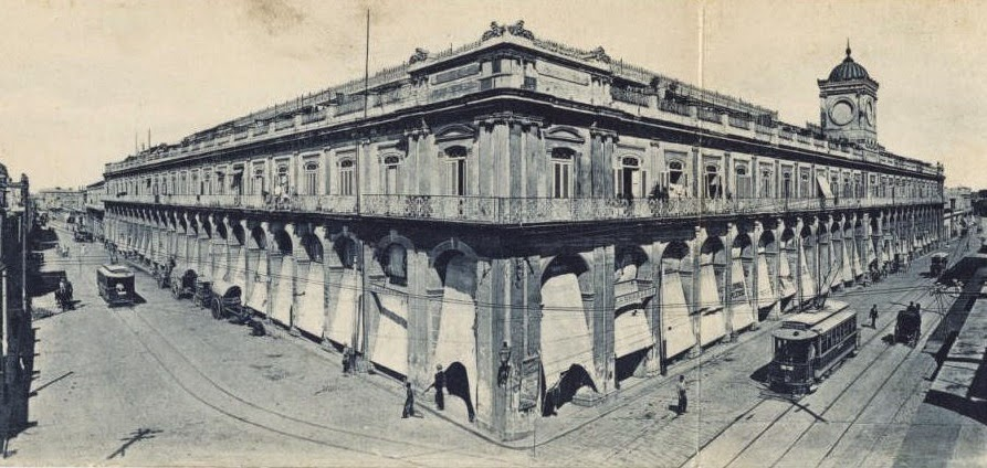 Mecado de Tacón, Habana